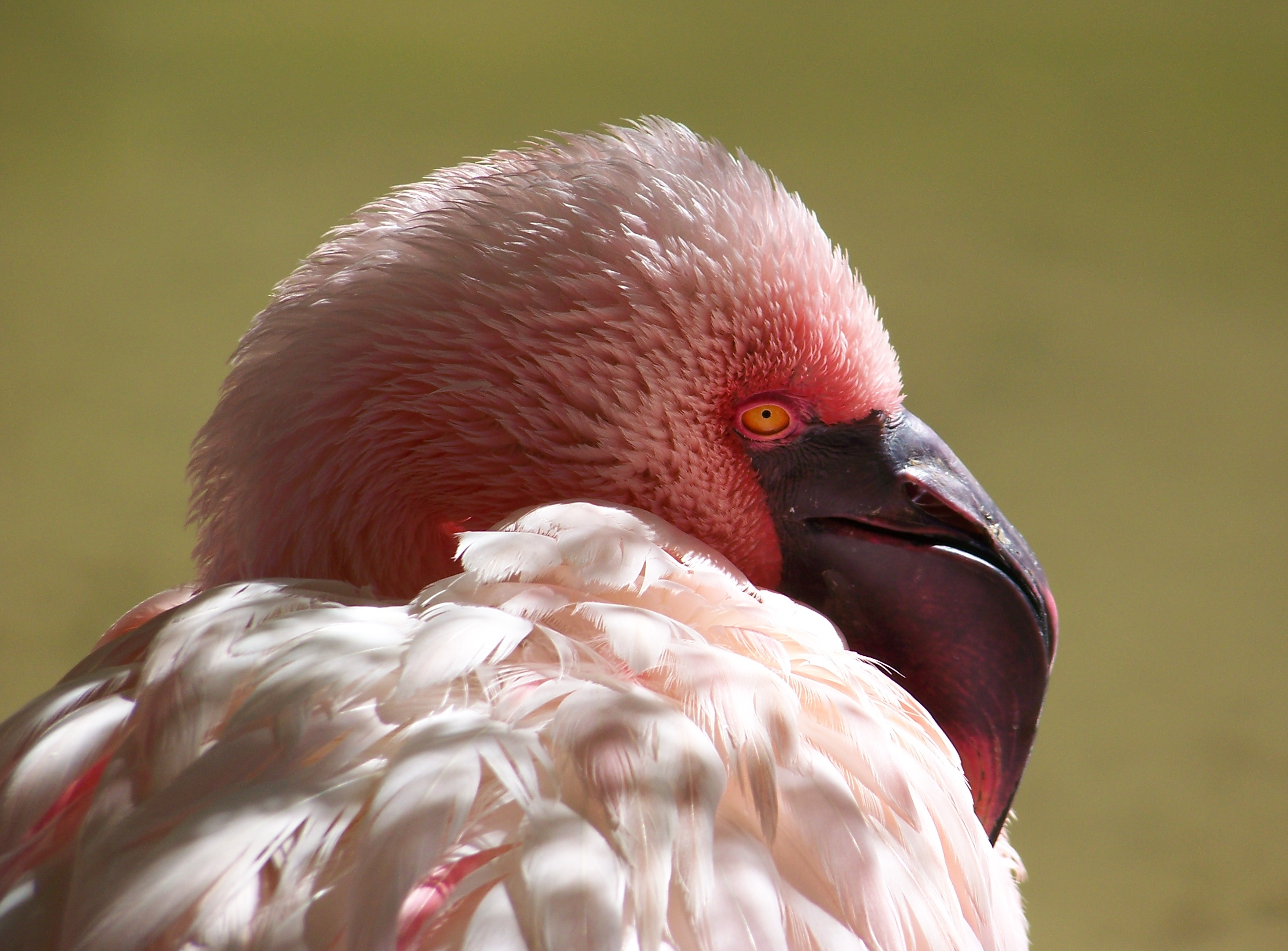 Close-up of a Lesser Flamingo (Phoenicopterus minor) at the San Diego Zoo in San Diego, California.